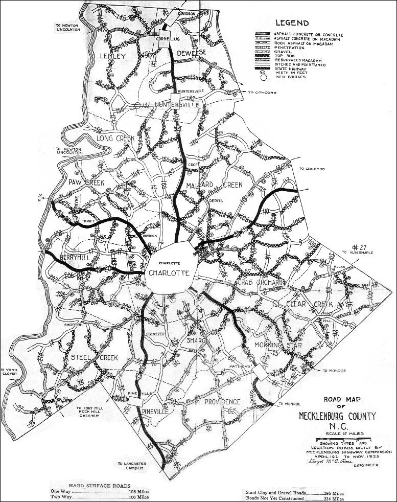 1923 Map of Mecklenburg County, North Carolina. Shows original Township boundaries before NC annexation laws changed.